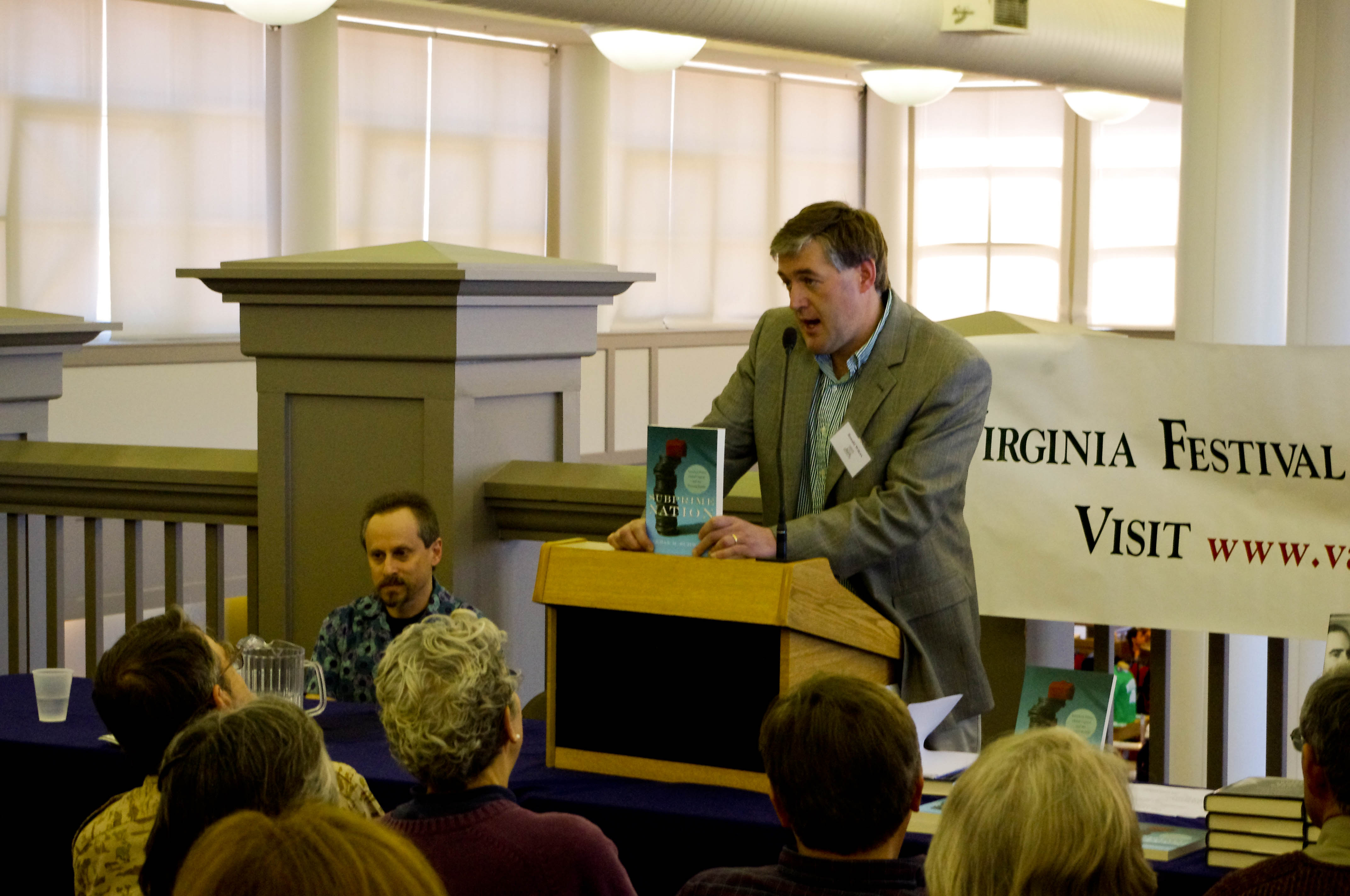 Herman M. Schwartz (left) at The Virginia Festival of the Book in 2010